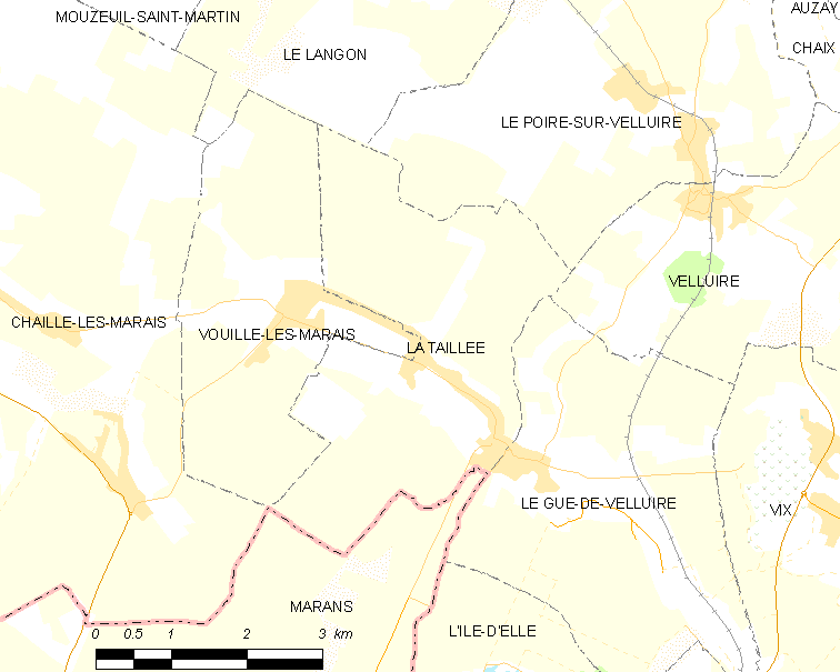 Map of French municipality La Taillée